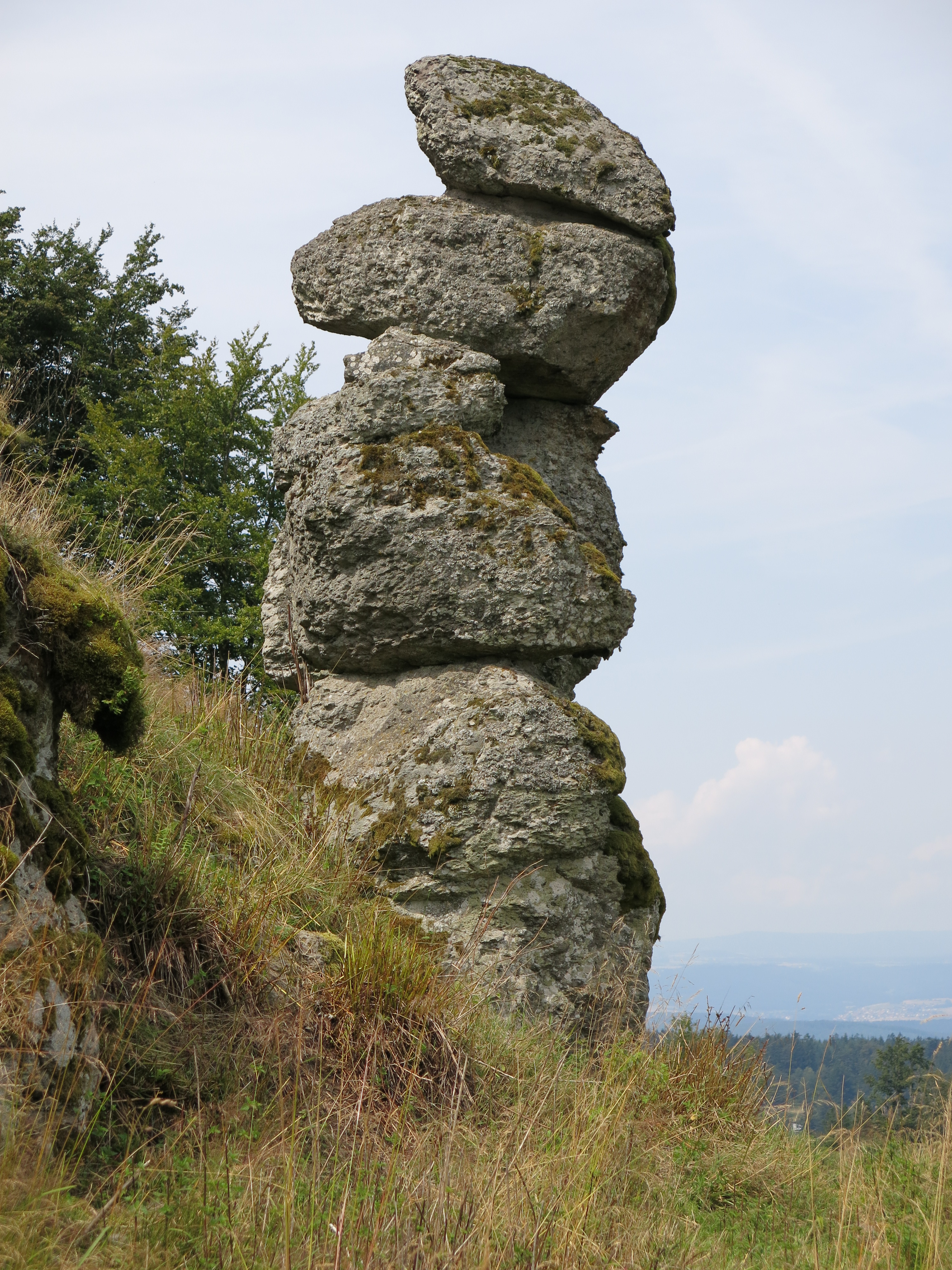 Phonolith column on Dalherdakuppe in the Rhön Mountains